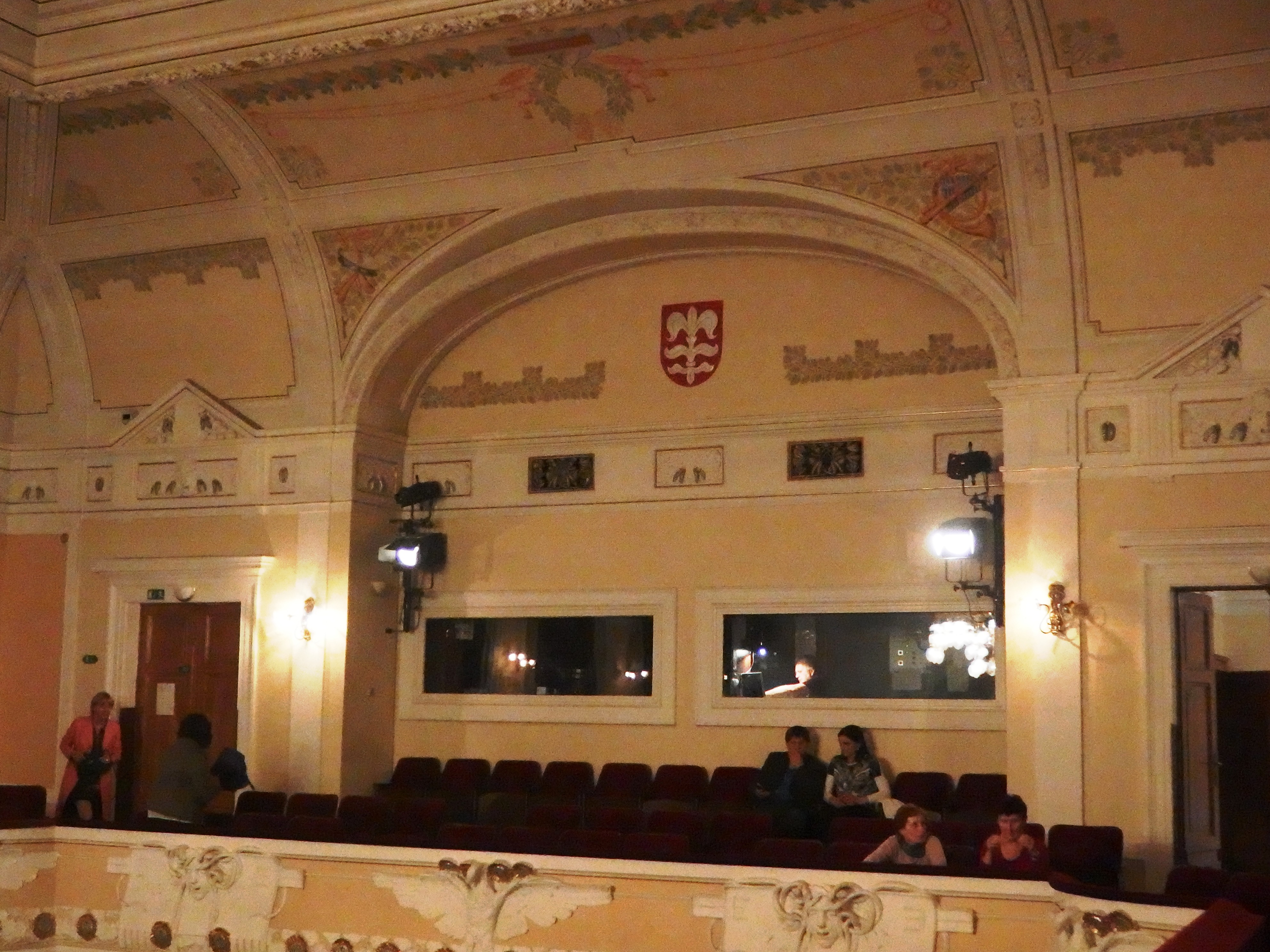 Litomyšl, Svitavy District, Czech Republic. Smetana-house (theater).